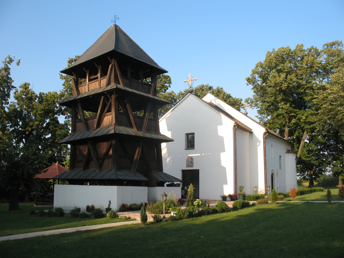 Church in Mali Požarevac in Sopot municipality near Belgrade, Serbia.